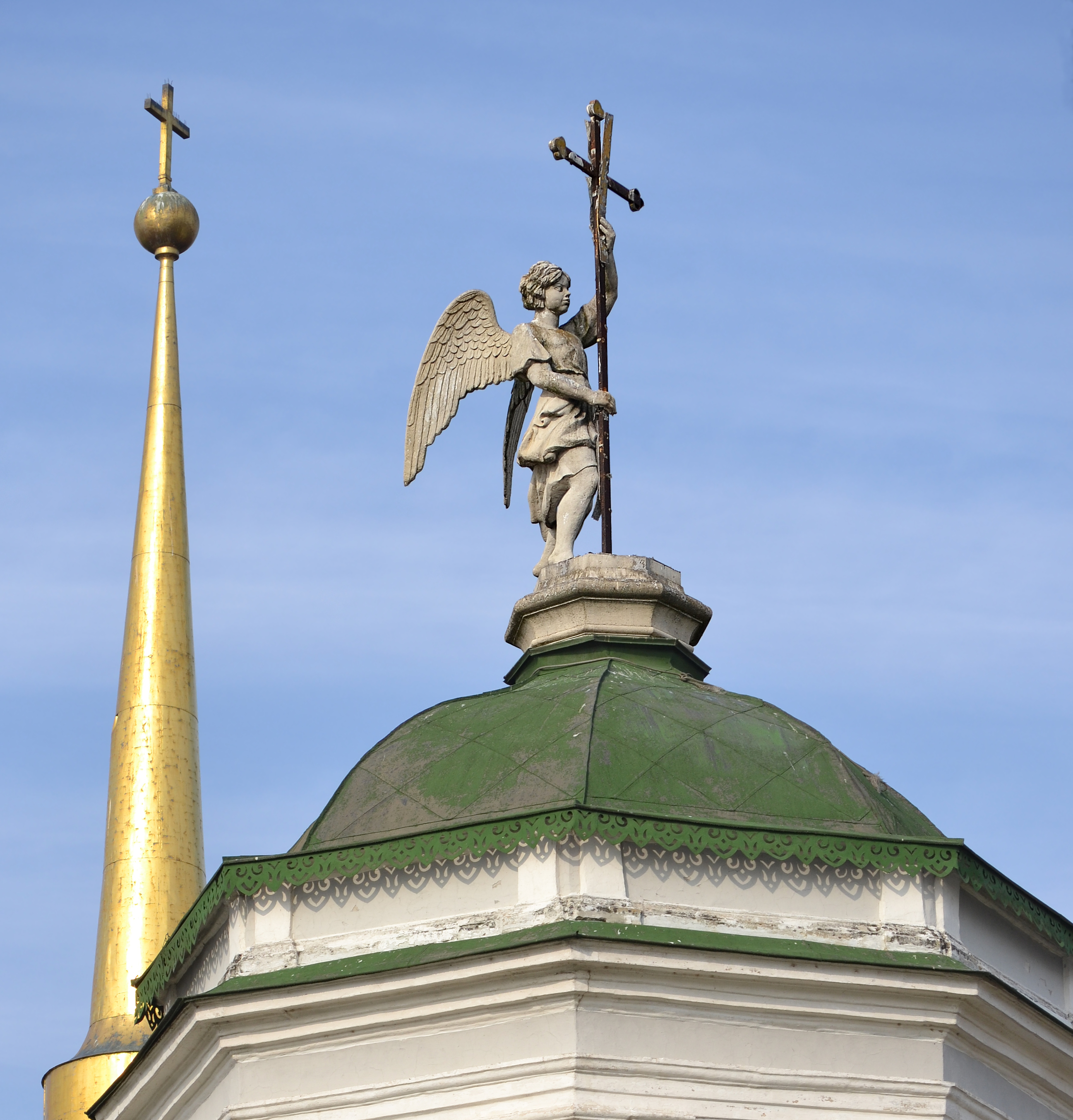 The Church of the Merciful Saviour in Kuskovo, Moscow. The spire of the bell tower and the figure of an angel with the cross mounted on the top of the church dome. Late 1730s.